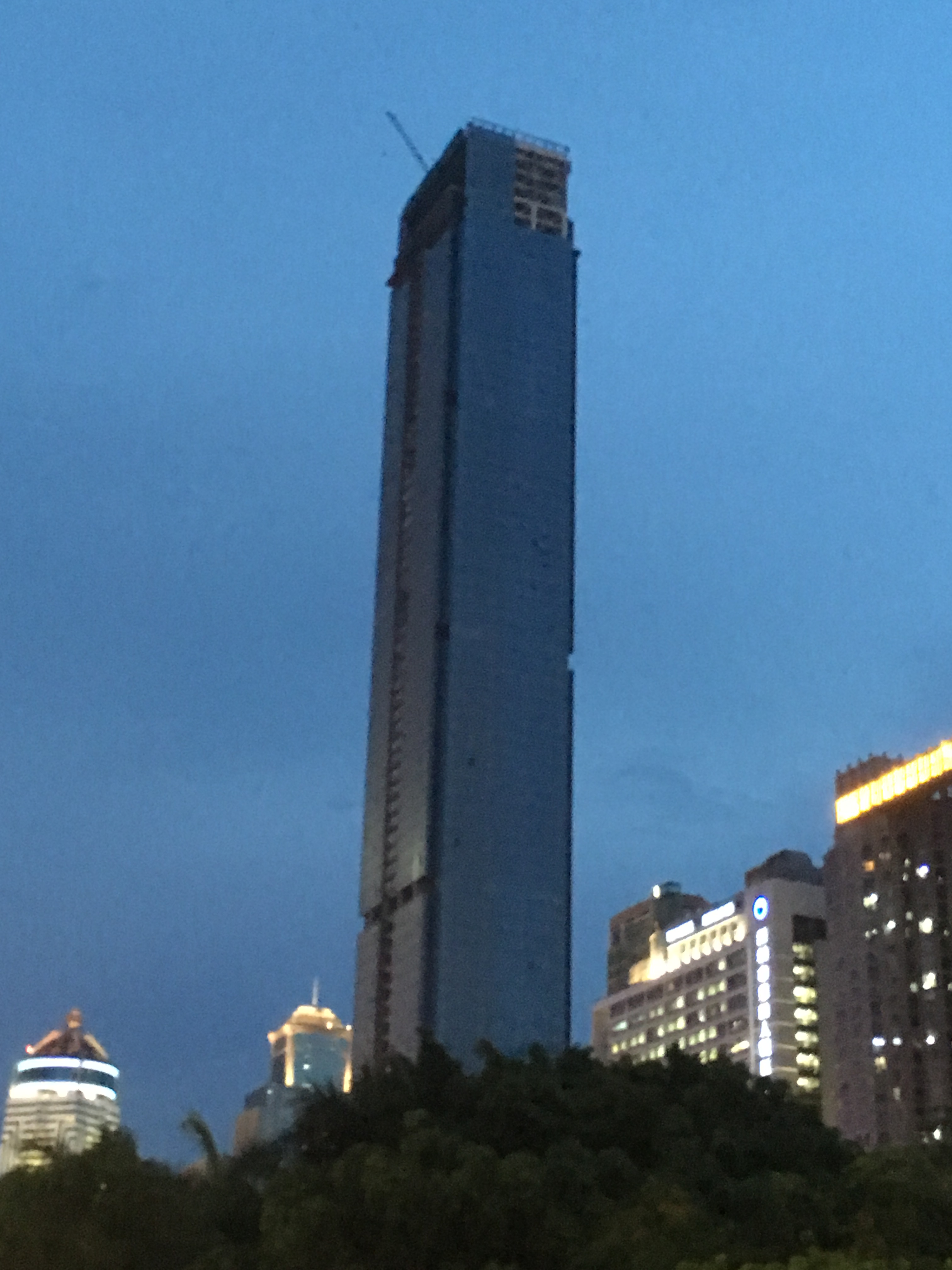 A skyscraper in Shenzhen